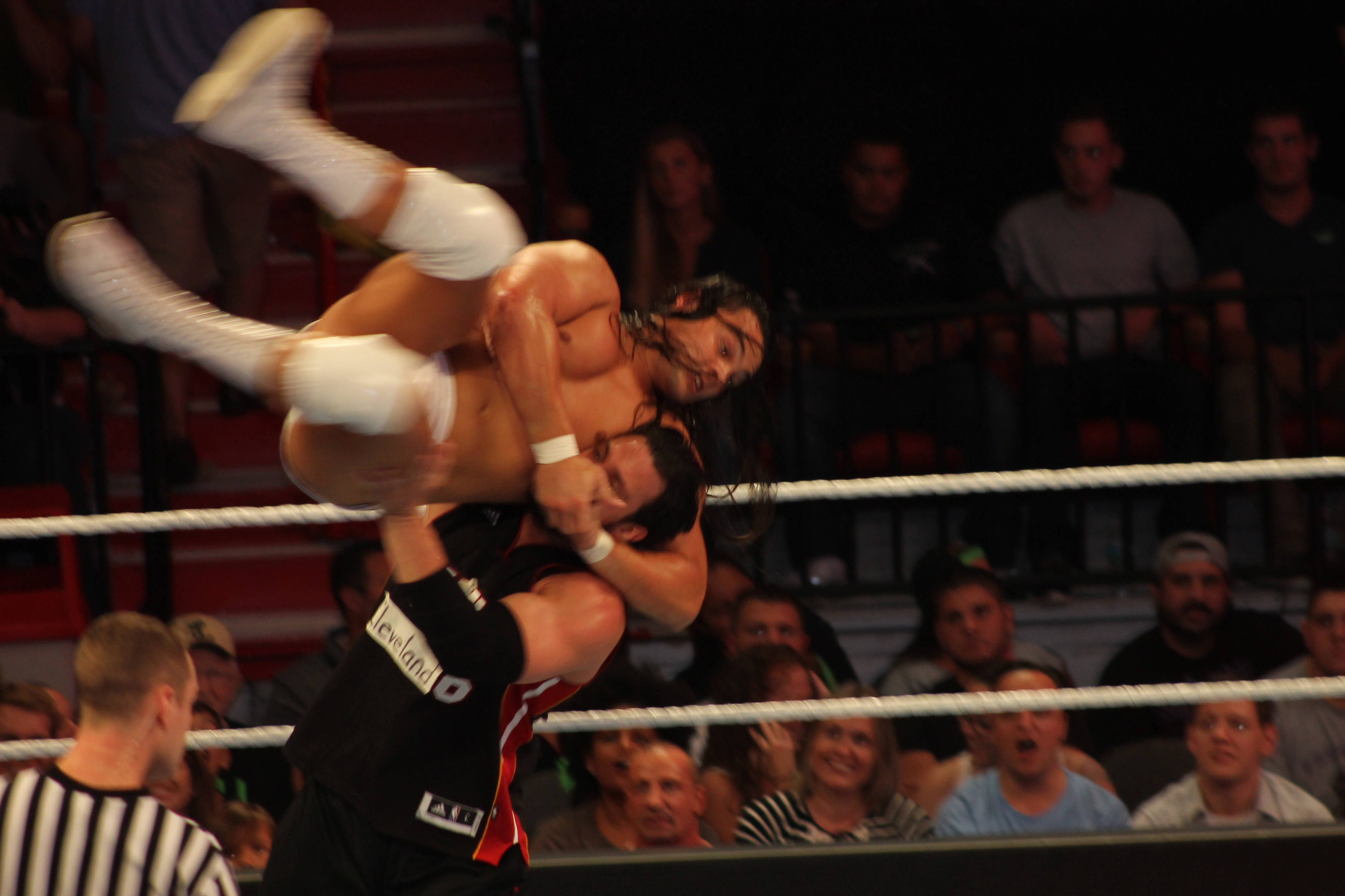 Bo Dallas executes the Bo-Dog on Damien Sandow.